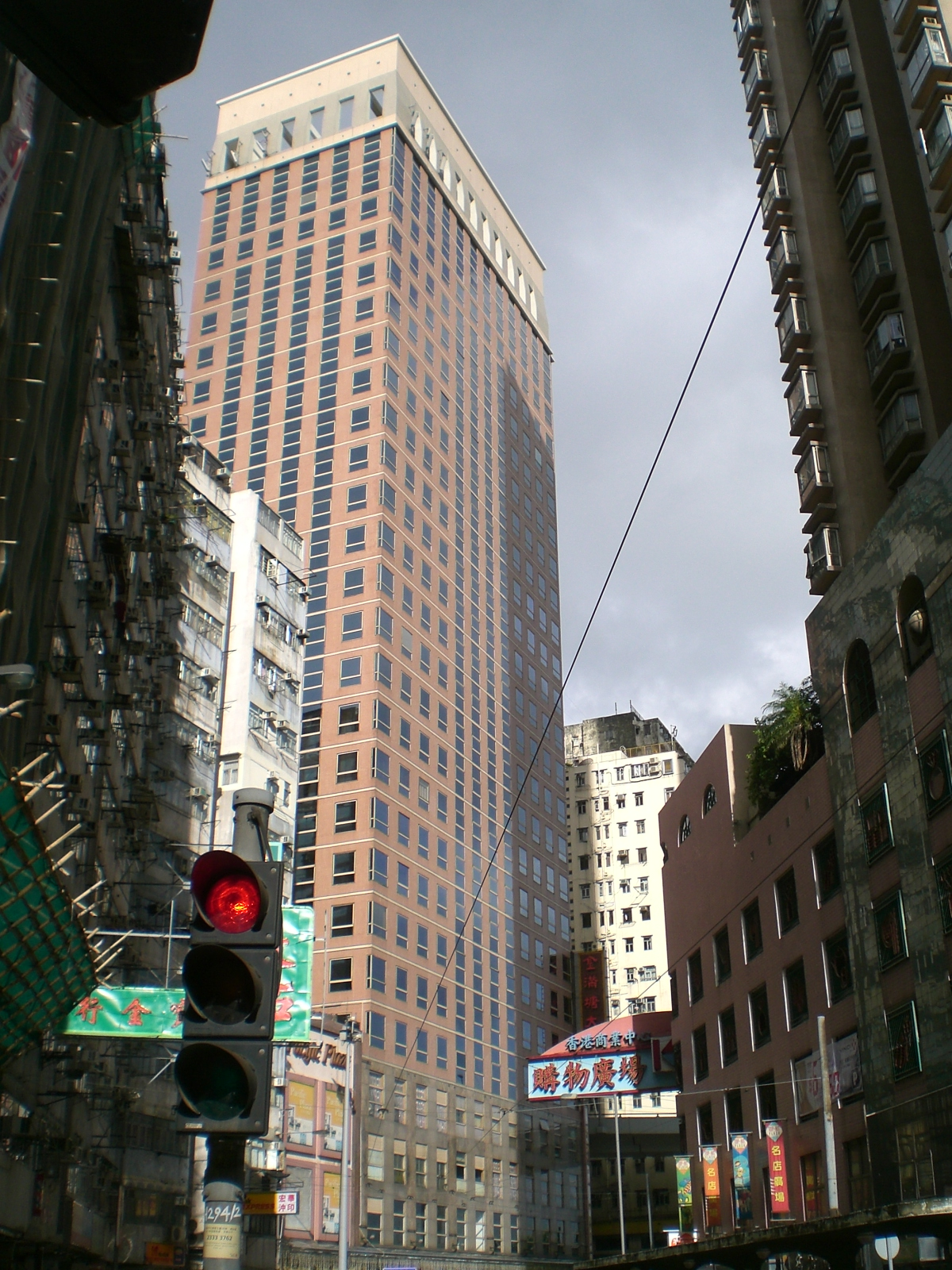 太平洋廣場, 香港商場, 德輔道西 Author= SeDAplaza